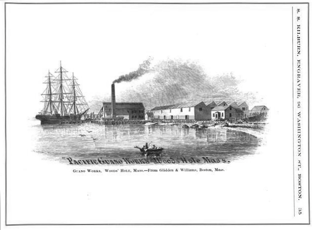 Pacific Guano Works. Illustration from: S.S. Kilburn. Specimens of designing and engraving on wood. Boston: ca.1865.